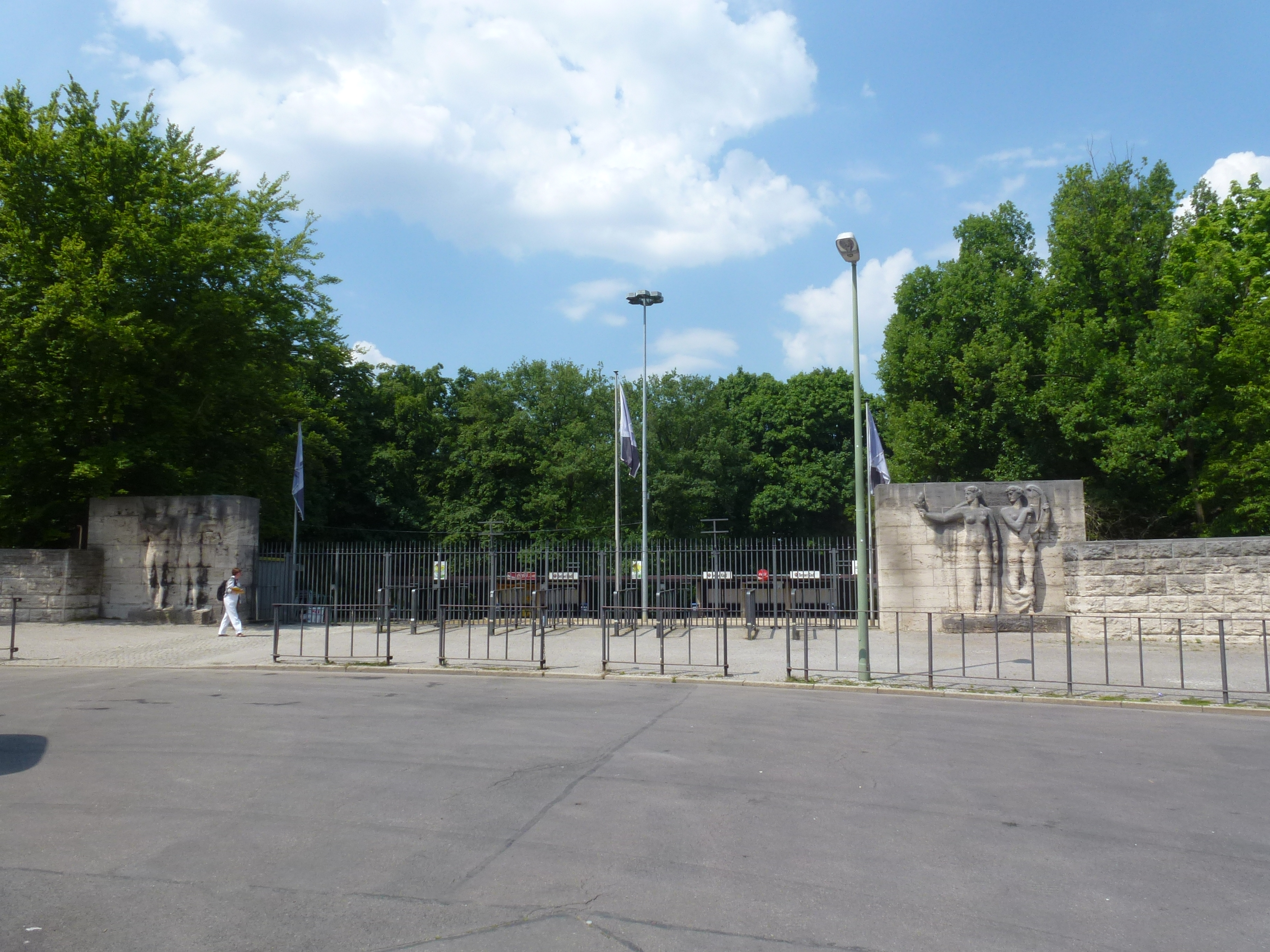 Berlin-Westend Am Glockenturm Eingang Waldbühne